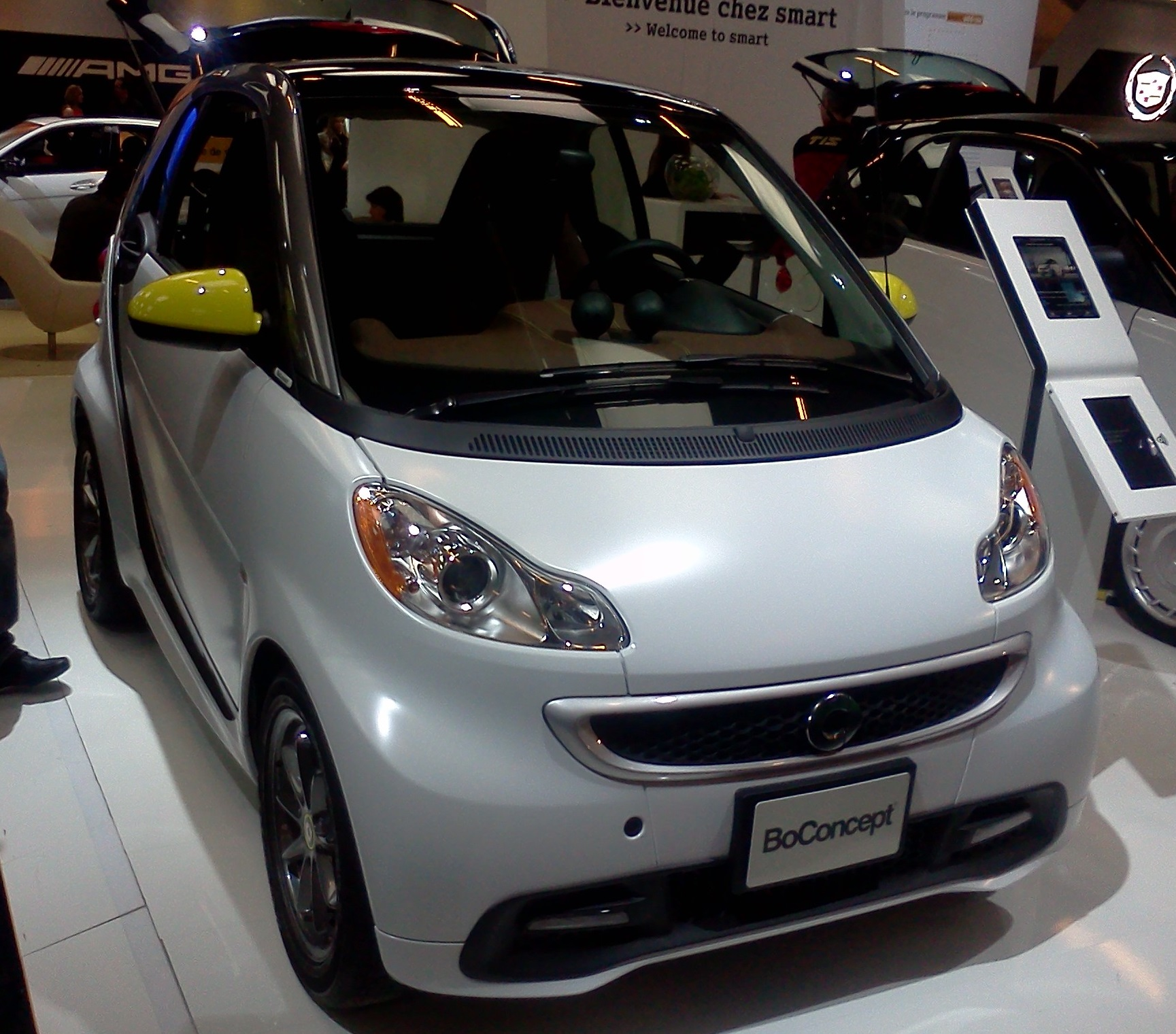 2014 Smart Fortwo photographed in Montreal, Quebec, Canada at the 2014 Montreal International Auto Show.